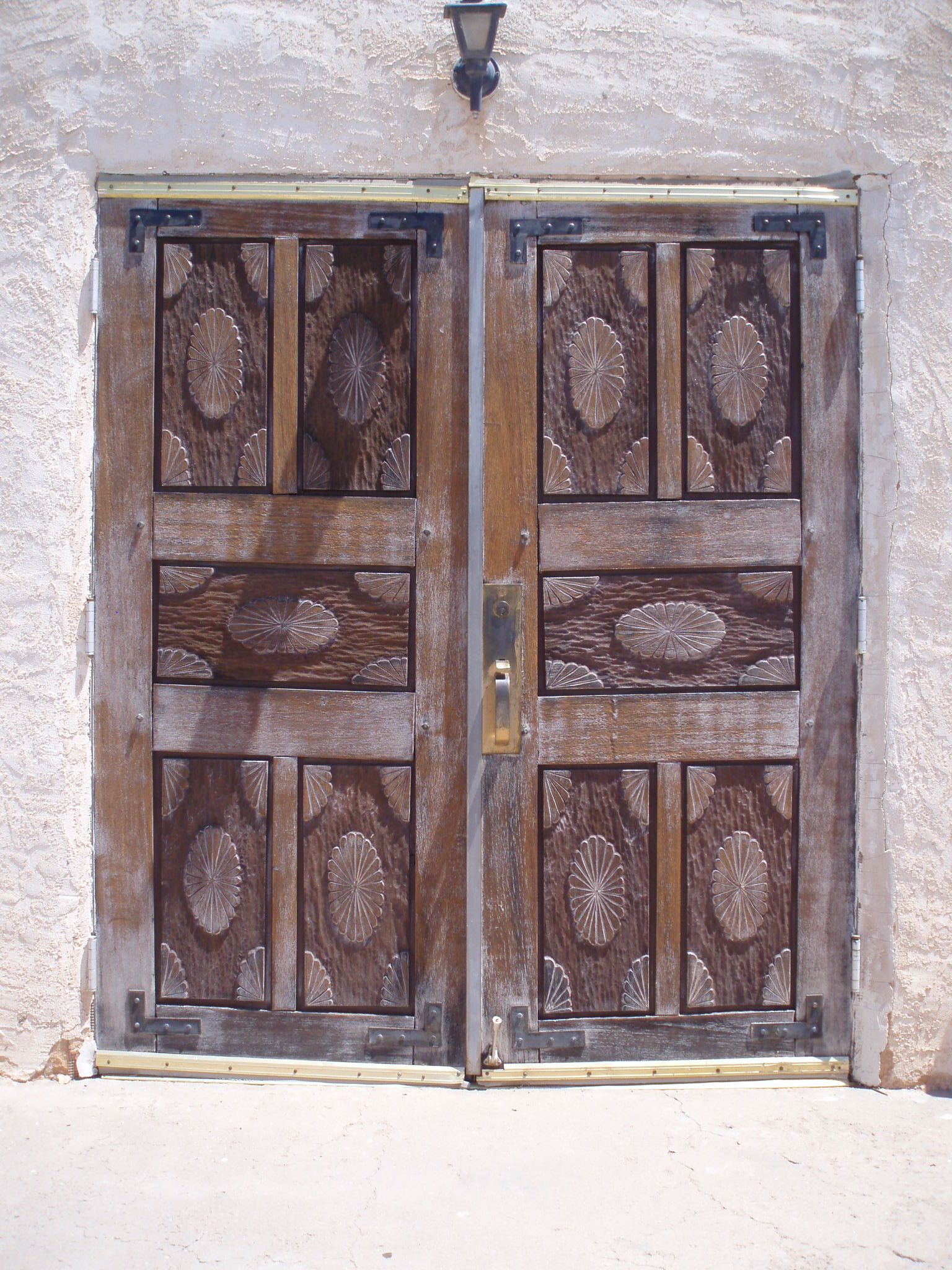 San Ysidro is a very small town on St. Road 4 when you turn north to go to Jemez or Los Alamos. It's basically just homes and business along each side of the road, very pretty, lots of cottonwood trees. I always thought I'd like to live there, but there is no where to work, and it's too far either to Albuquerque or Los Alamos to commute. I don't know how old the church is; I'd always meant to stop and take pictures but I never did until yesterday.